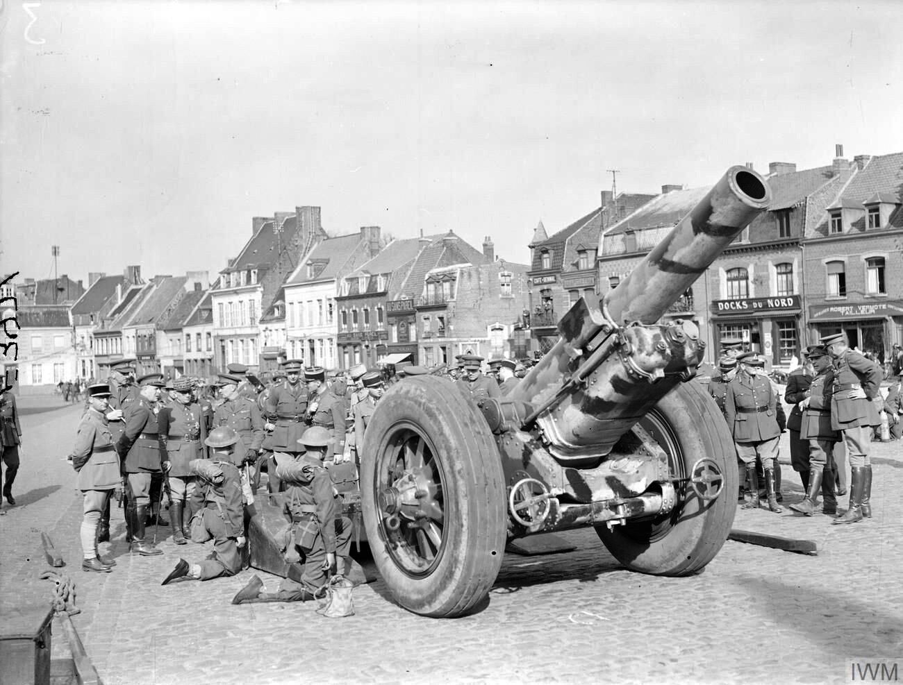 THE BRITISH ARMY IN FRANCE 1940 An 8-inch Mk VIII howitzer during an inspection by French General Georges at Bethune, 23 April 1940.